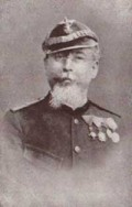 Karl Wolf (* 1848–04–11 † 1912–02–02 in Merano/Austria, since 1919 Italy), fire department chief of Merano/Austria, since 1919 Italy, 1898-1912